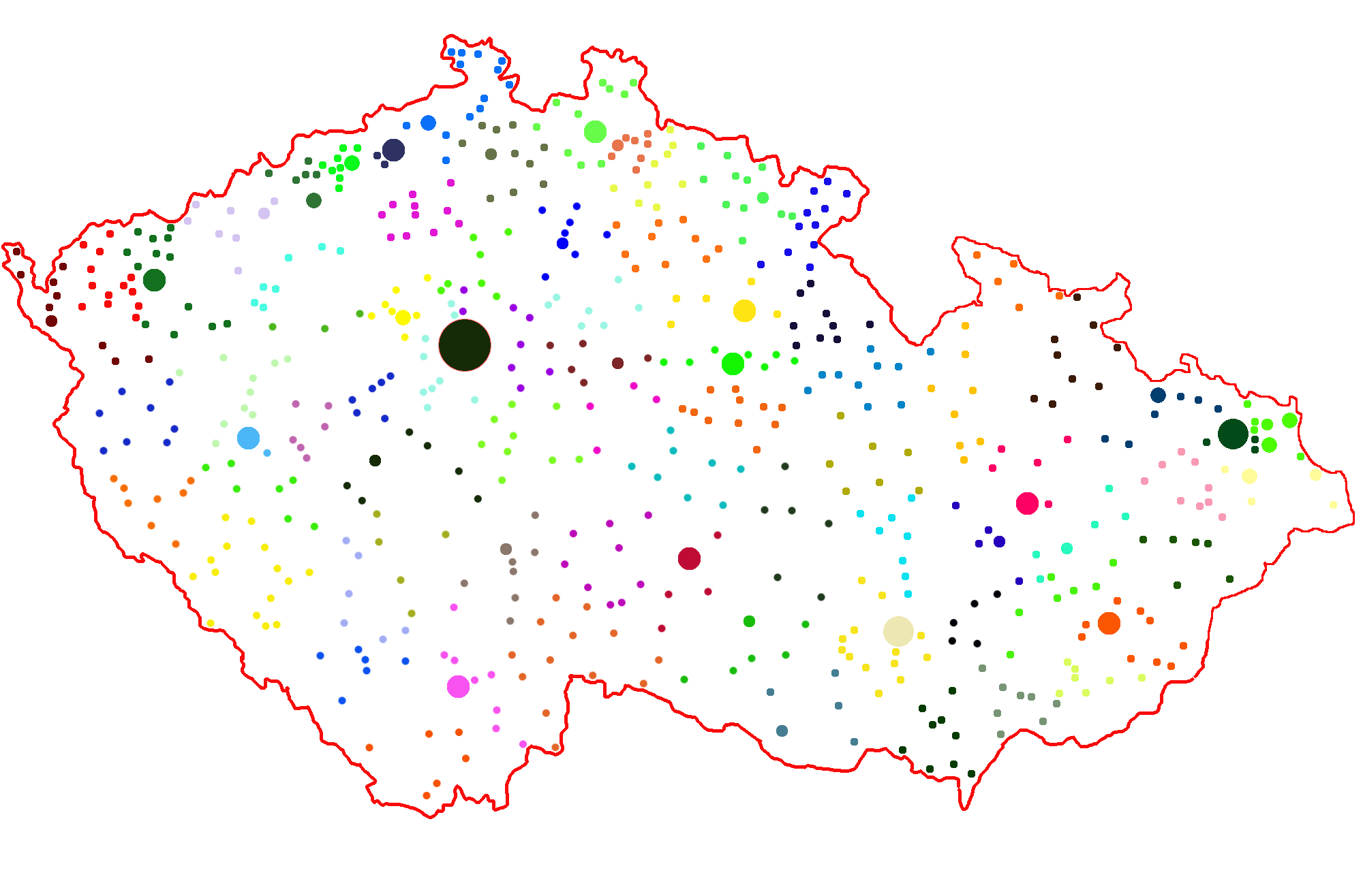 Towns and cities of the Czech Republic. Each color represents a different "okres" (district). Note to the size of the dotes: Prague, Brno and Ostrava are approximately in its real size ratio. Seats of regions (kraj) something bigger, the same like towns greater than 50 000 inhabitants (stand: 2008!) and 30-50 000 inhabitants (2008!); there should be, however, all 594 towns and cities as in 2010.